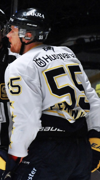 Daniel Fernholm of HV71 in a SHL game against AIK.